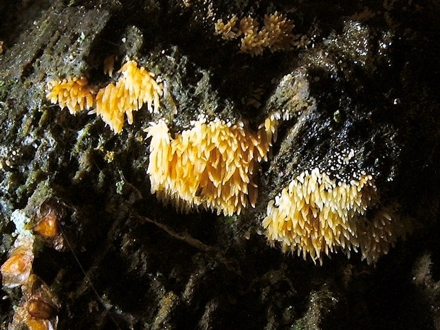 A fungus - Mucronella flava Growing in a sheltered spot a few feet above the ground on a large pine stump, these tufts are each about a centimetre high, and they consist of little yellow spines, which are directed downwards. Mucronella flava and the related M. calva (which has much shorter spines and which grows on logs lying on the ground) are both evidently quite rare in Britain – Several other photographs of Mucronella flava can be found here: [The pine stump on which this Mucronella was growing has, in the past, been host to several different slime mould species, including Fuligo septica , Enteridium lycoperdon , and a Stemonitis species (shown on this stump at ).]